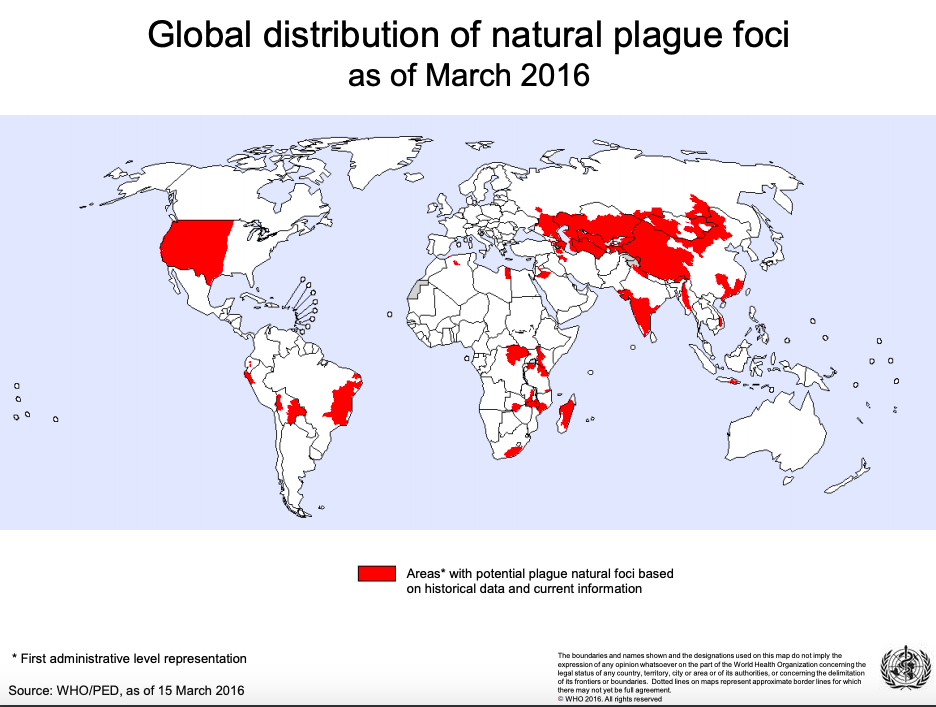 Distribuição geográfica de potenciais focos de peste com base em dados históricos e informações do ano de 2016.